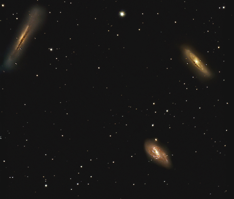 I took this photo from Kalkaska, MI March 2007. Category:Galaxy images